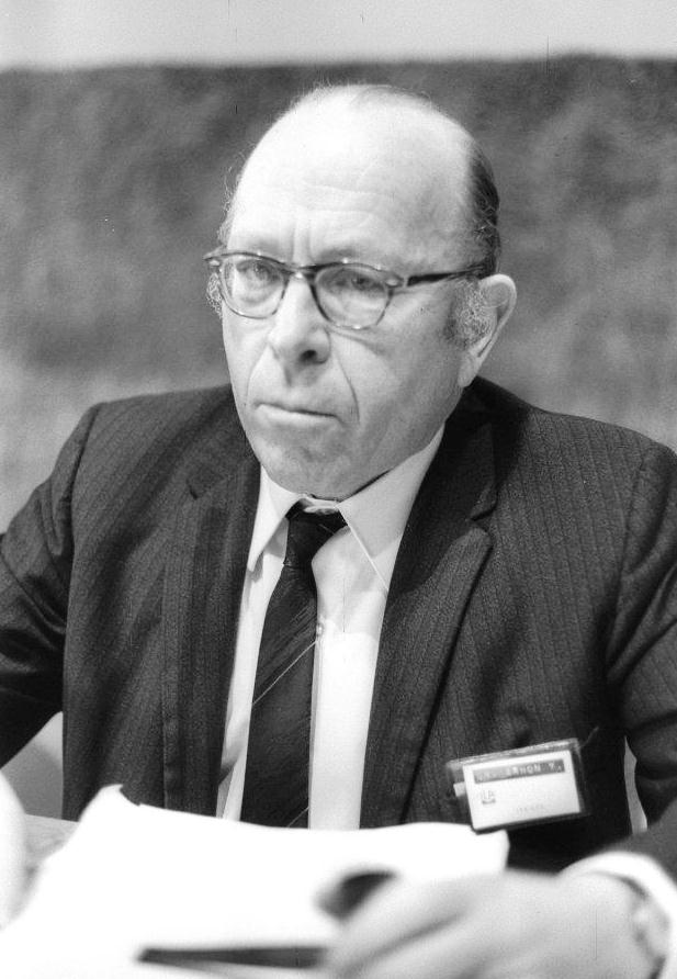 Ya'akov Arnon (Hebrew: יעקב ארנון; 1913-1995) was an Israeli economist and government official in the 1960s who later became active in the Israeli peace movement. Was Chairman of the Board of Israel Electric Corporation 1972 - 1979.